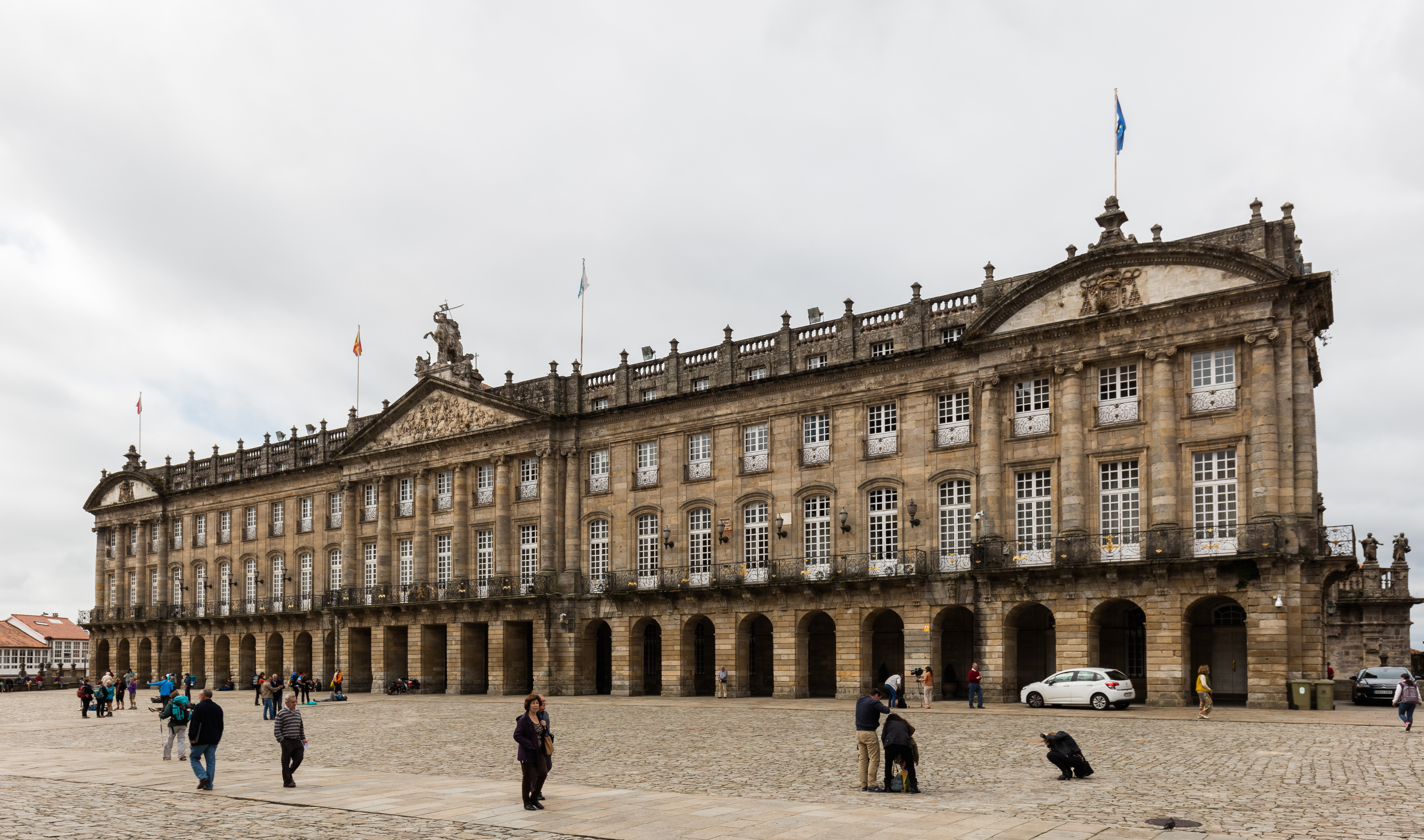 Palace of Raxoi, Santiago de Compostela, Spain.